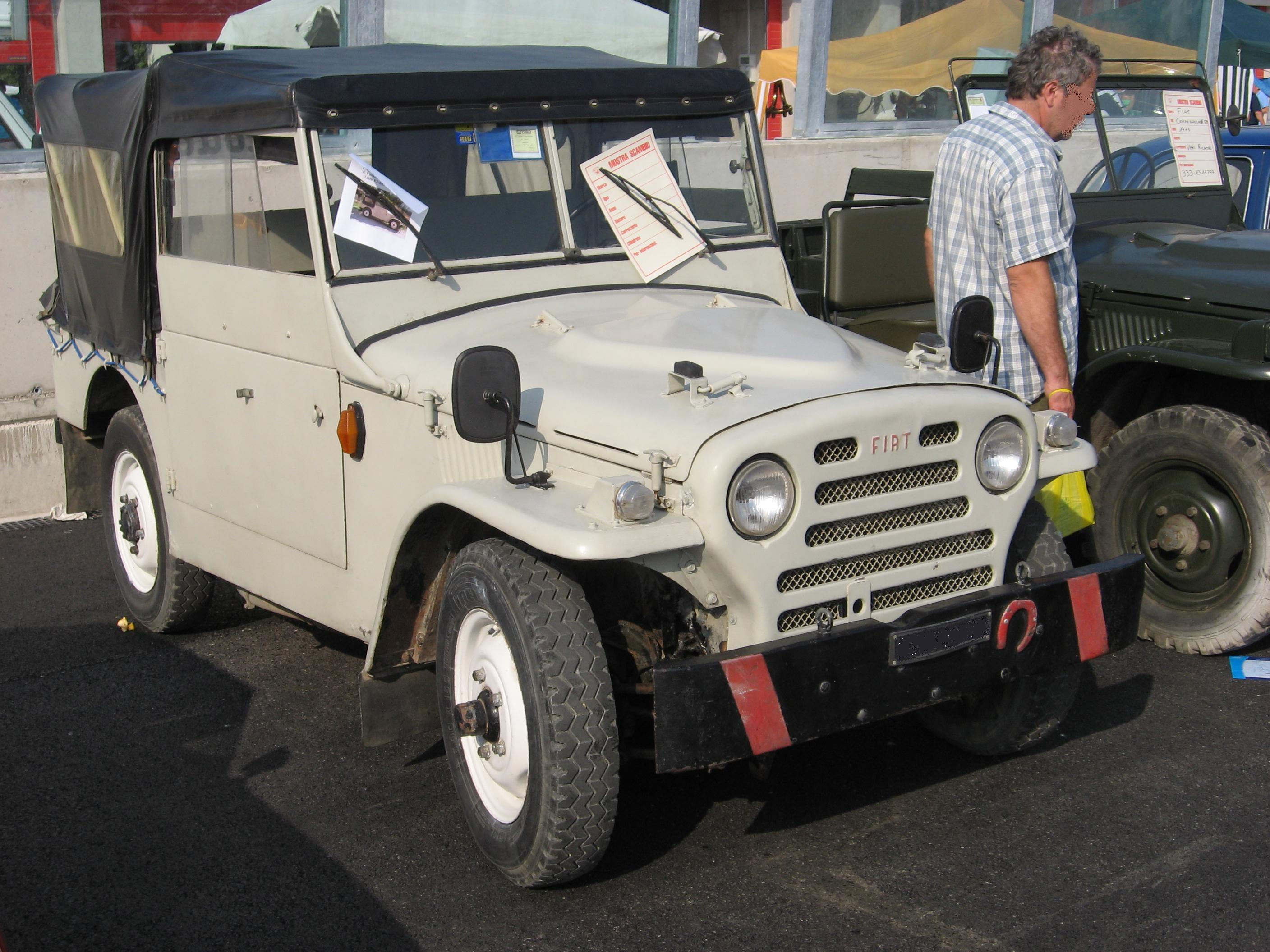 Subject: Fiat Campagnola Author: Luc106 Date: September 16th, 2007 Place/Country: Imola Circuit, Imola (BO), Italy I release all rights in the public domain